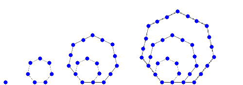 First Four Heptagonal number.